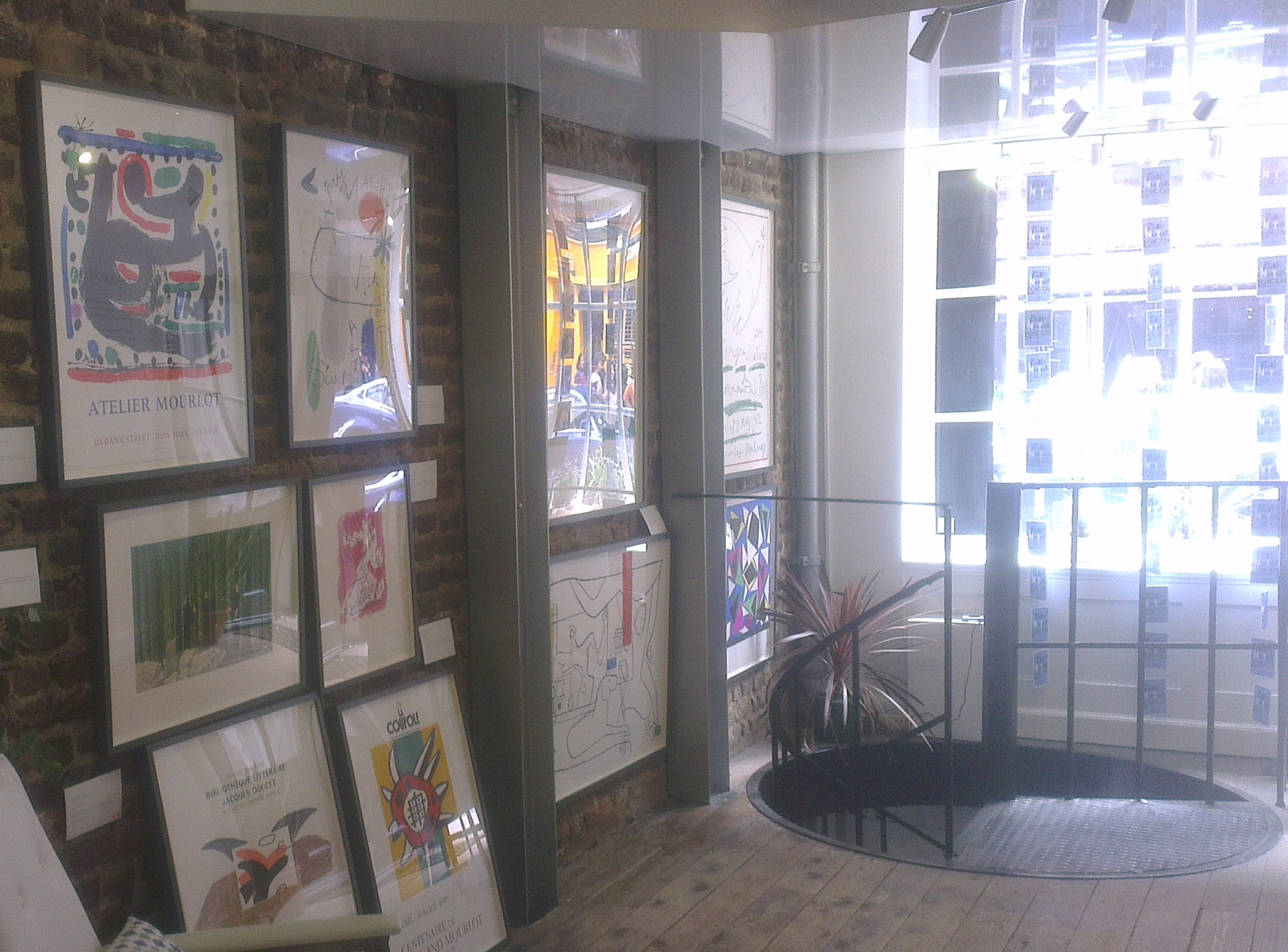 Mourlot Studios exhibition at King & McGaw, Pop Up Shop, Soho, London, May 2015